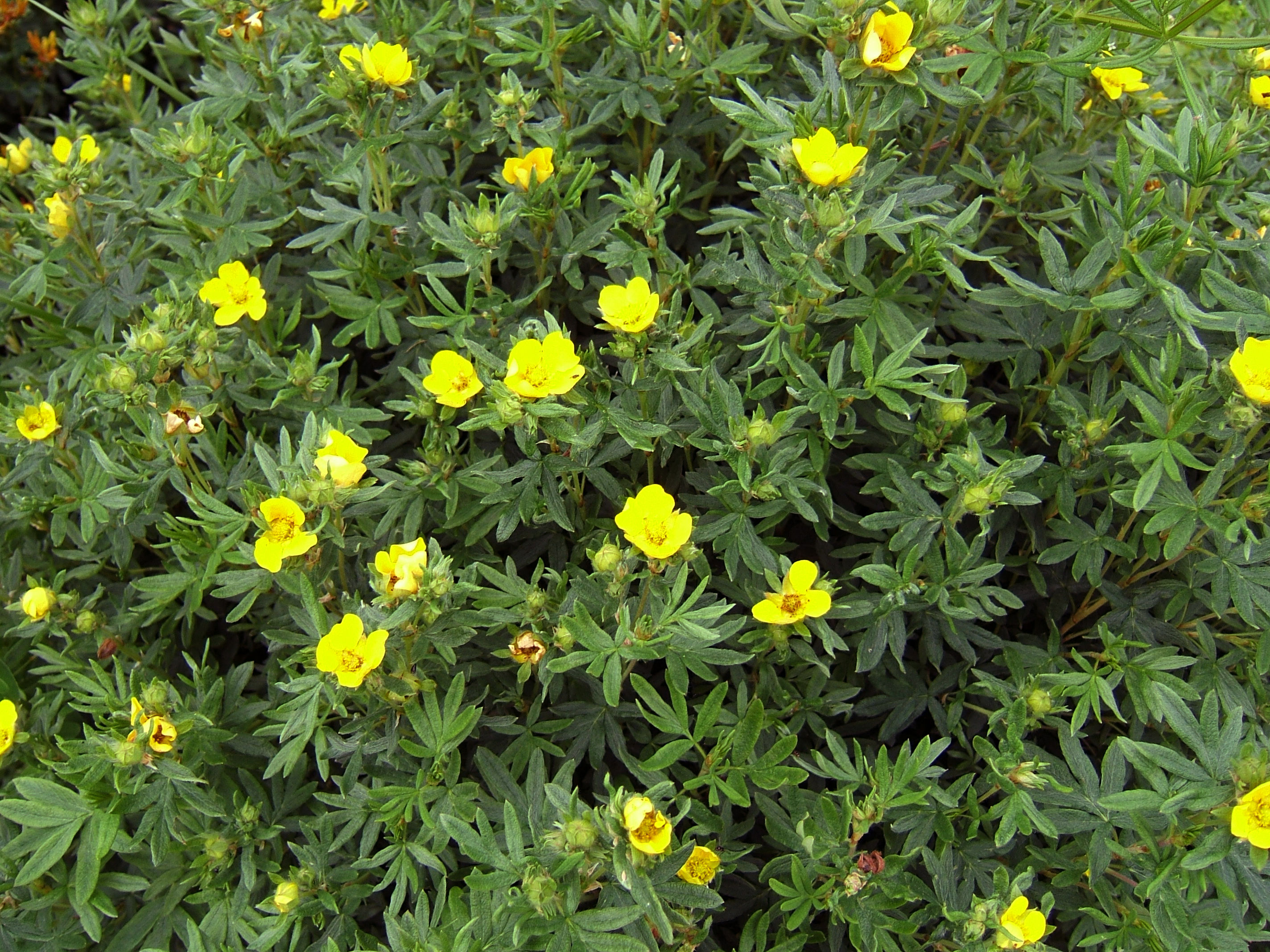 Dasiphora fruticosa subsp. fruticosa. Cultivated at Newcastle University Botanic Gardens; seed origin Upper Teesdale, approx 54°39'N 2°15'W (type locality of the species)